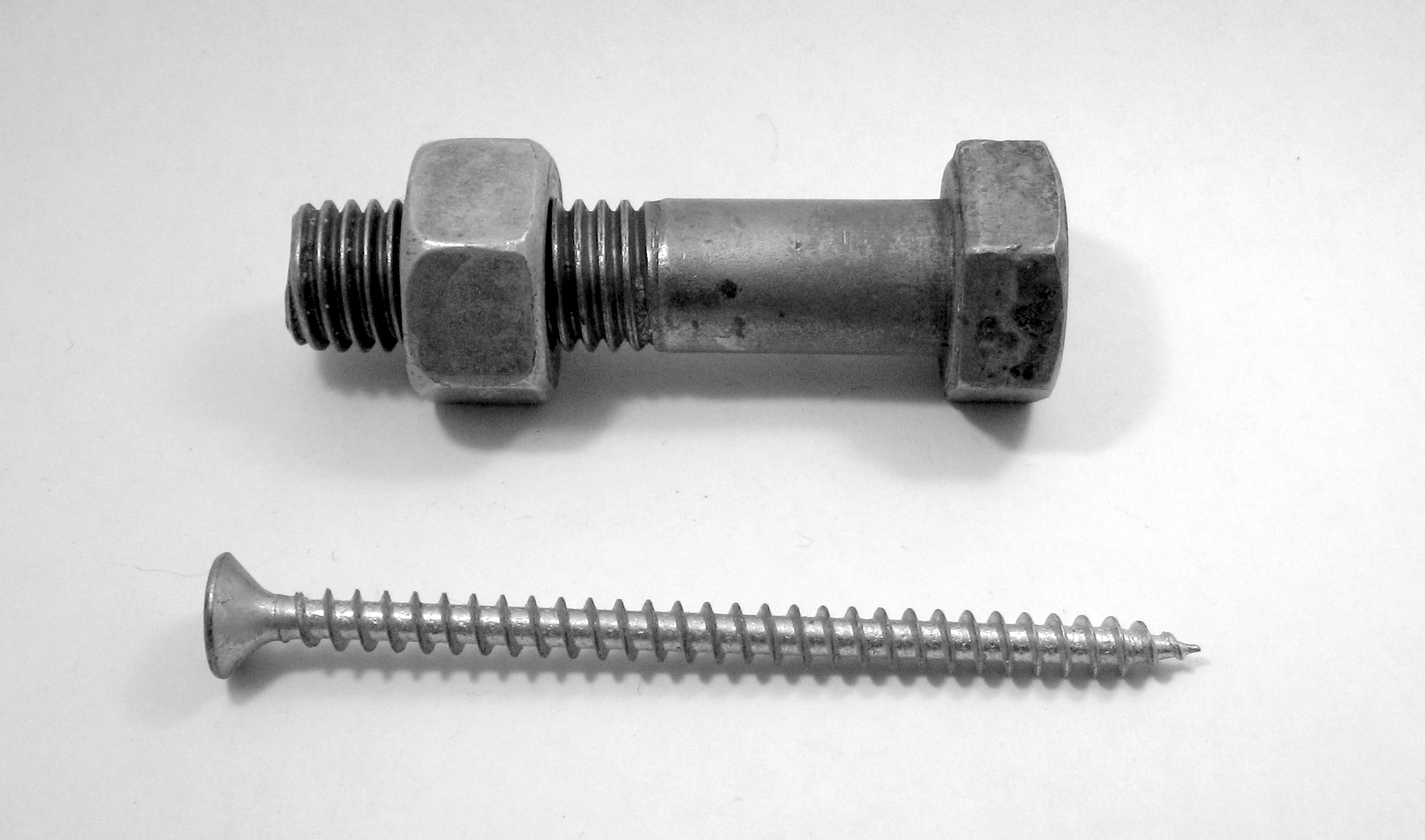 a bolt and a screw